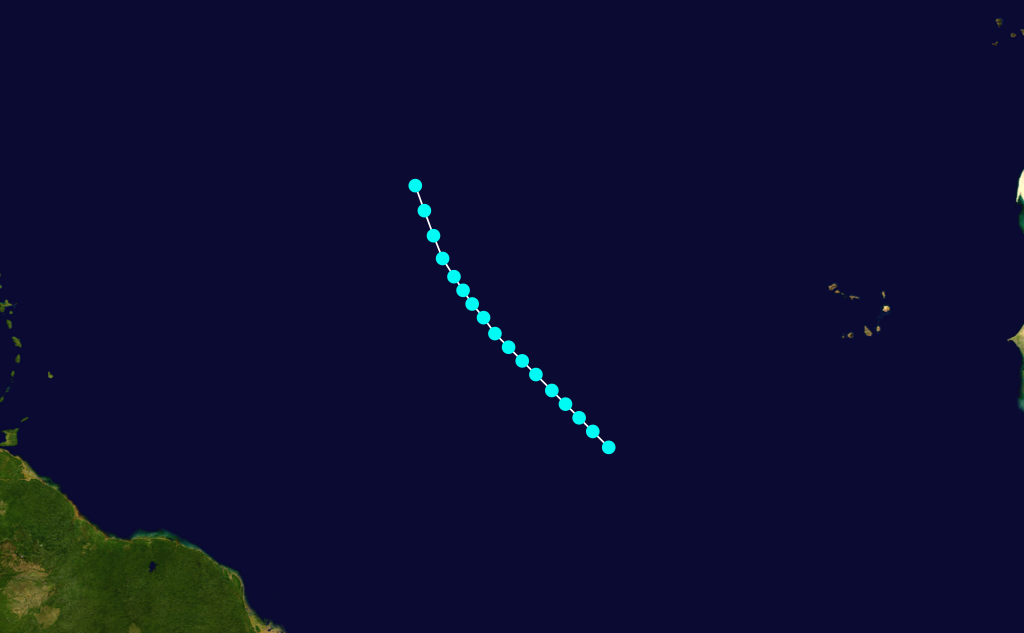 1899 Atlantic tropical storm 7 track. Uses the color scheme from the Saffir-Simpson Hurricane Scale.